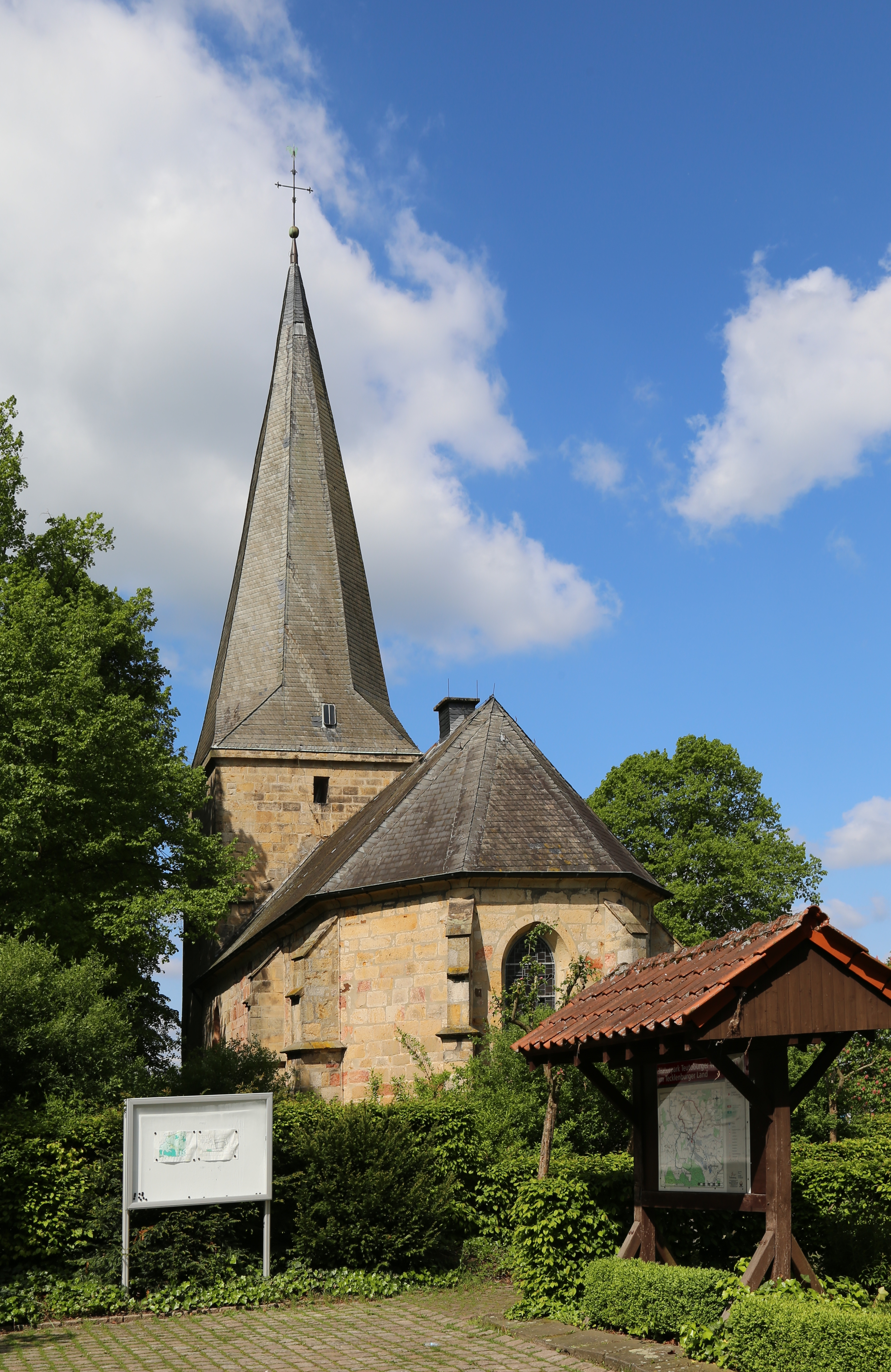 The Protestant Village Church (Dorfkirche) in Tecklenburg-Ledde, Kreis Steinfurt, North Rhine-Westphalia, Germany. The church is also a dedicated Site of Community Importance.